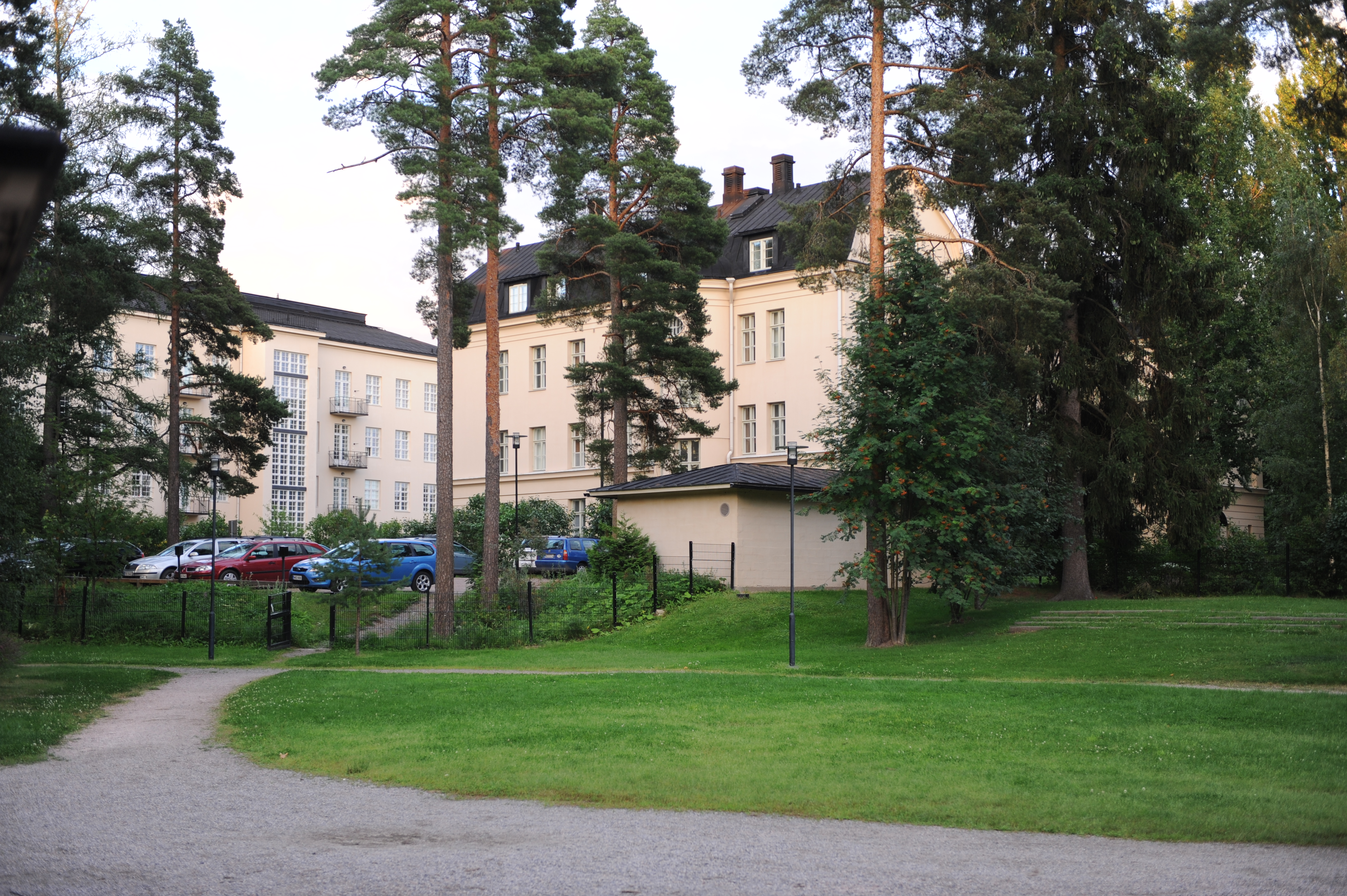 Nikkilän sairaala was a psychiatric hospital in Sipoo, Finland.